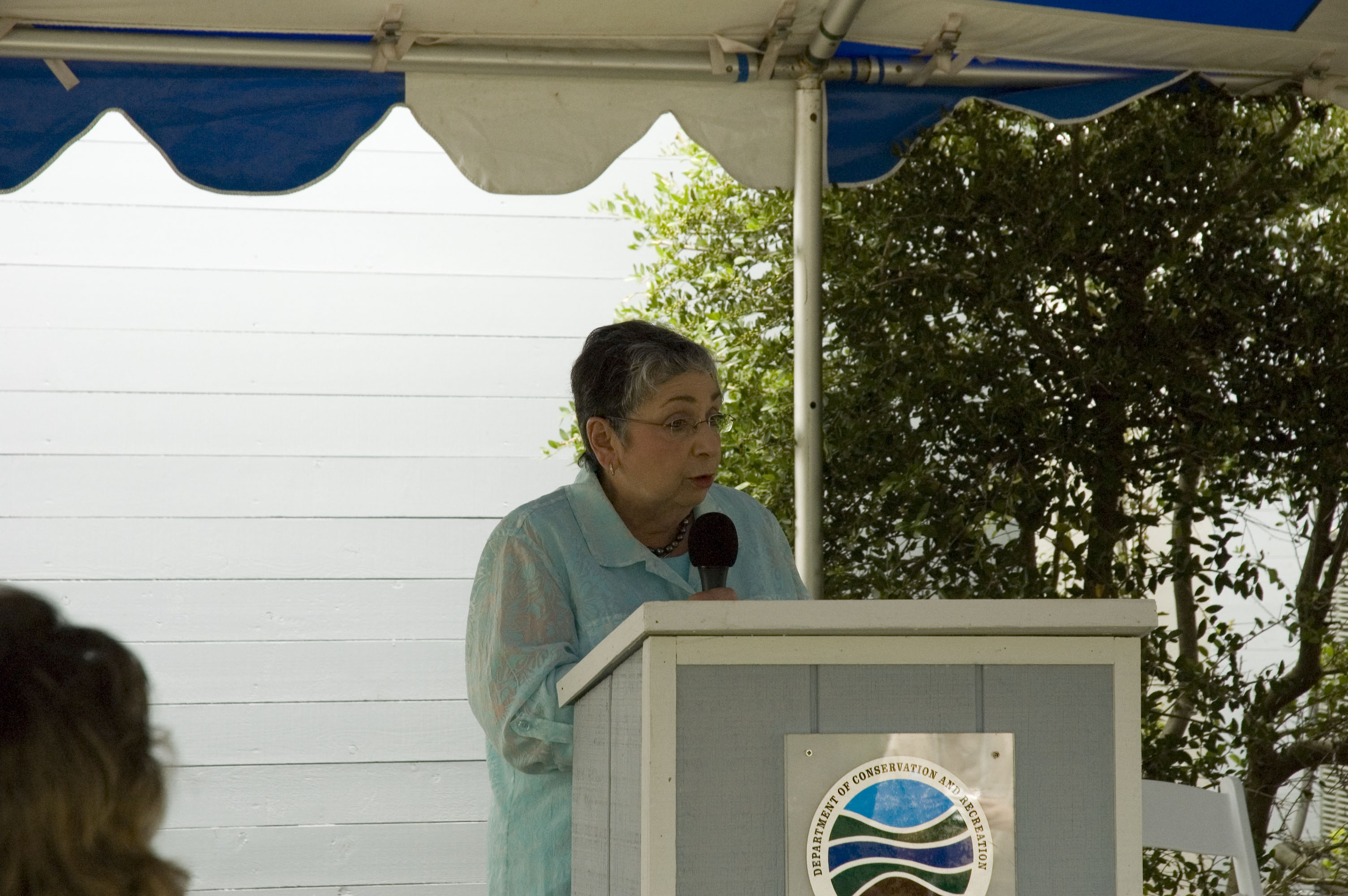 Virginia Beach Mayor Meyera Oberndorf (1941-2015) speaking at CCC Dedication